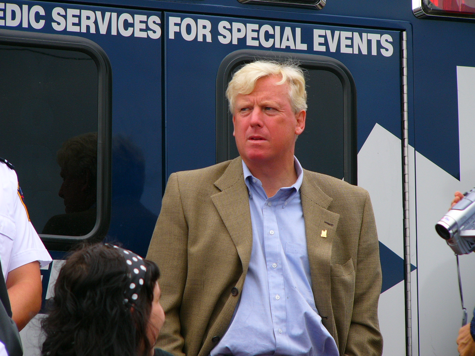 David Miller on Labour Day, at "Beachfest".